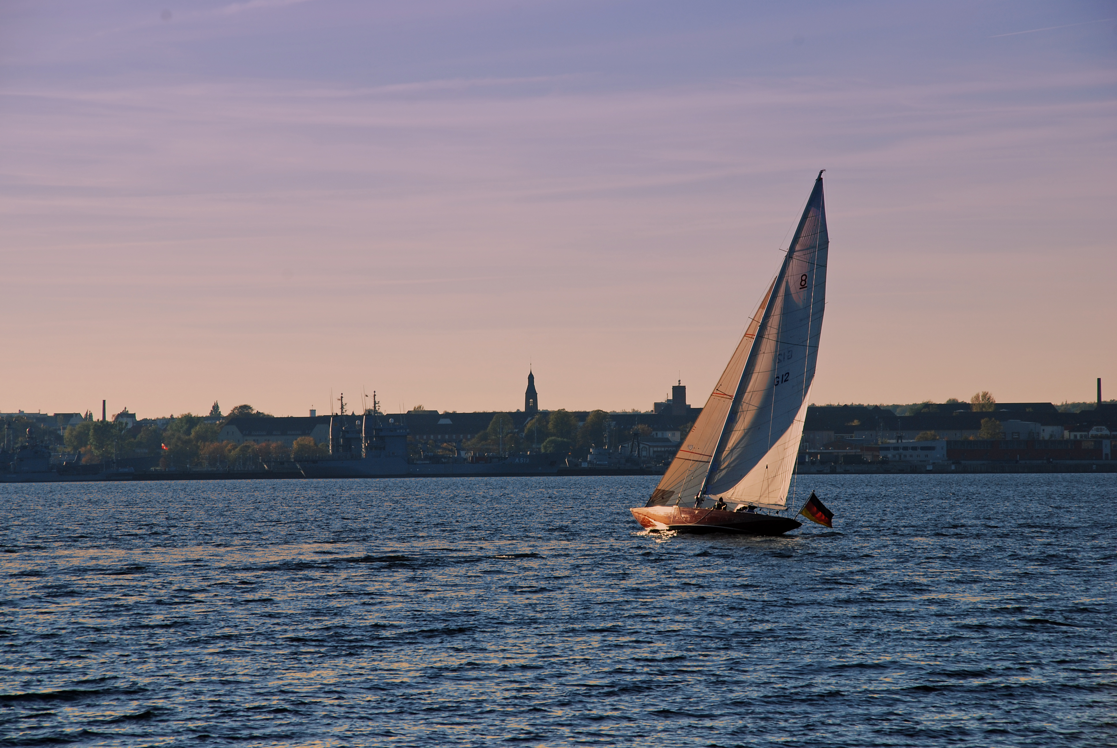 Germania IV